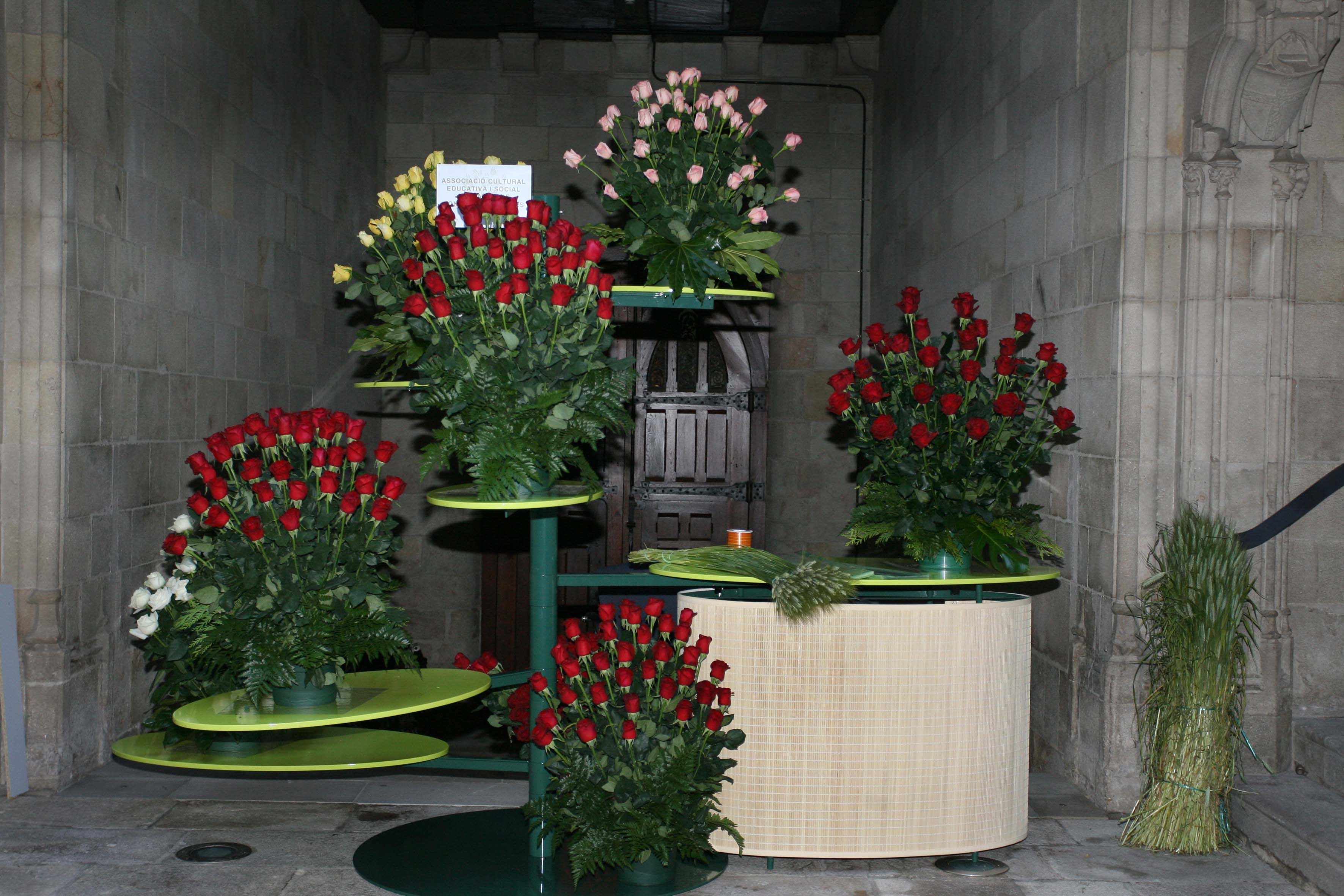 St George's Day in Catalonia